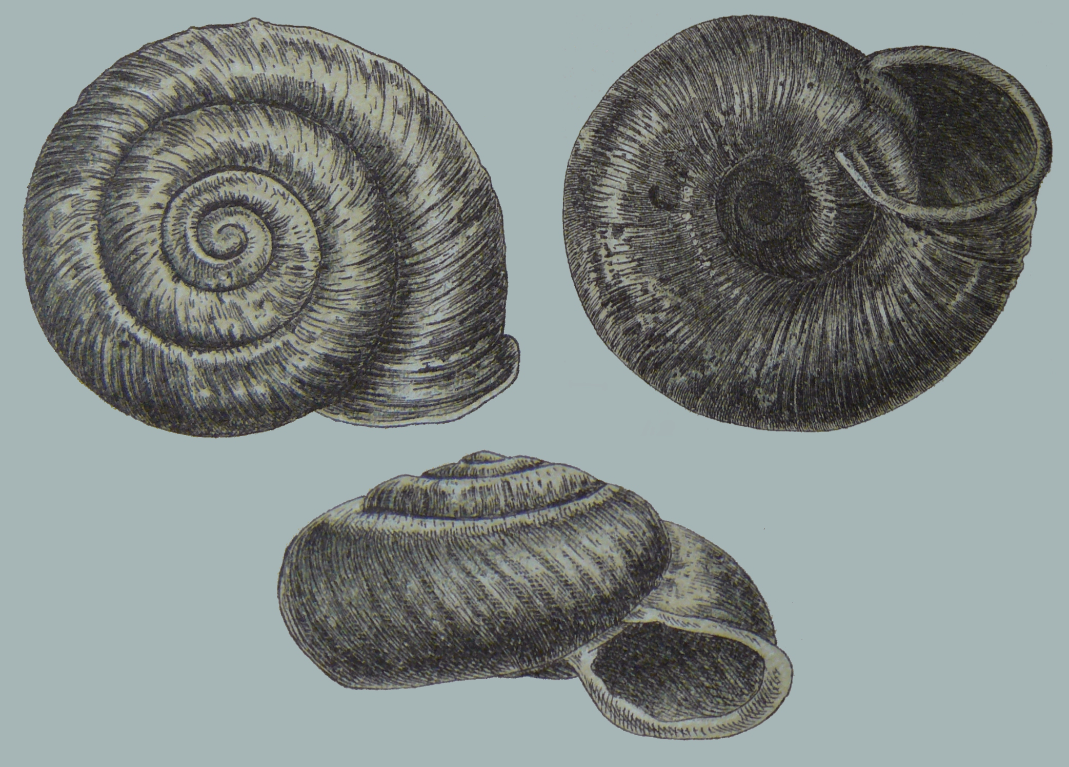 Vallonia tenuilabris - scanned and improved by Tom Meijer